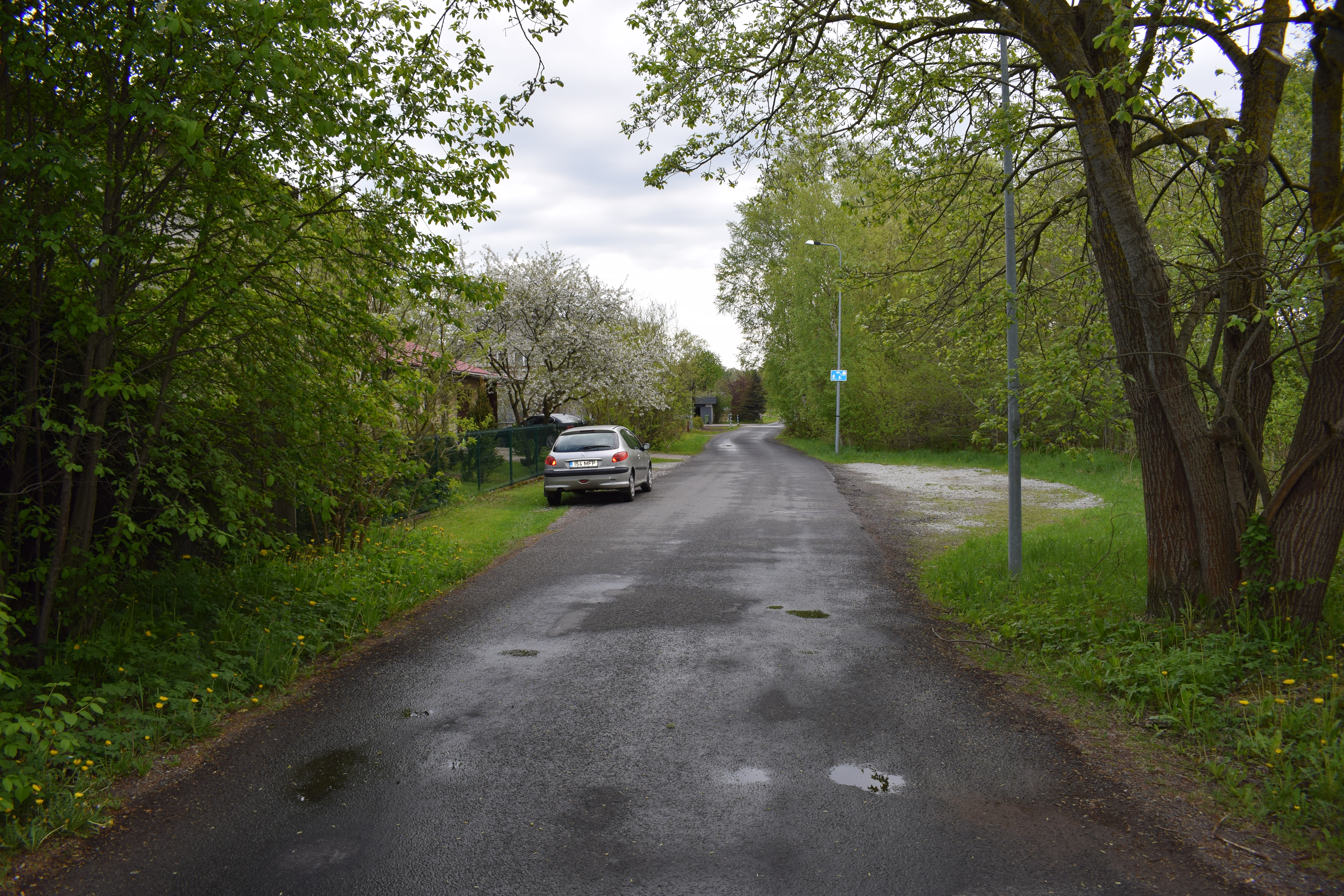 Viige street